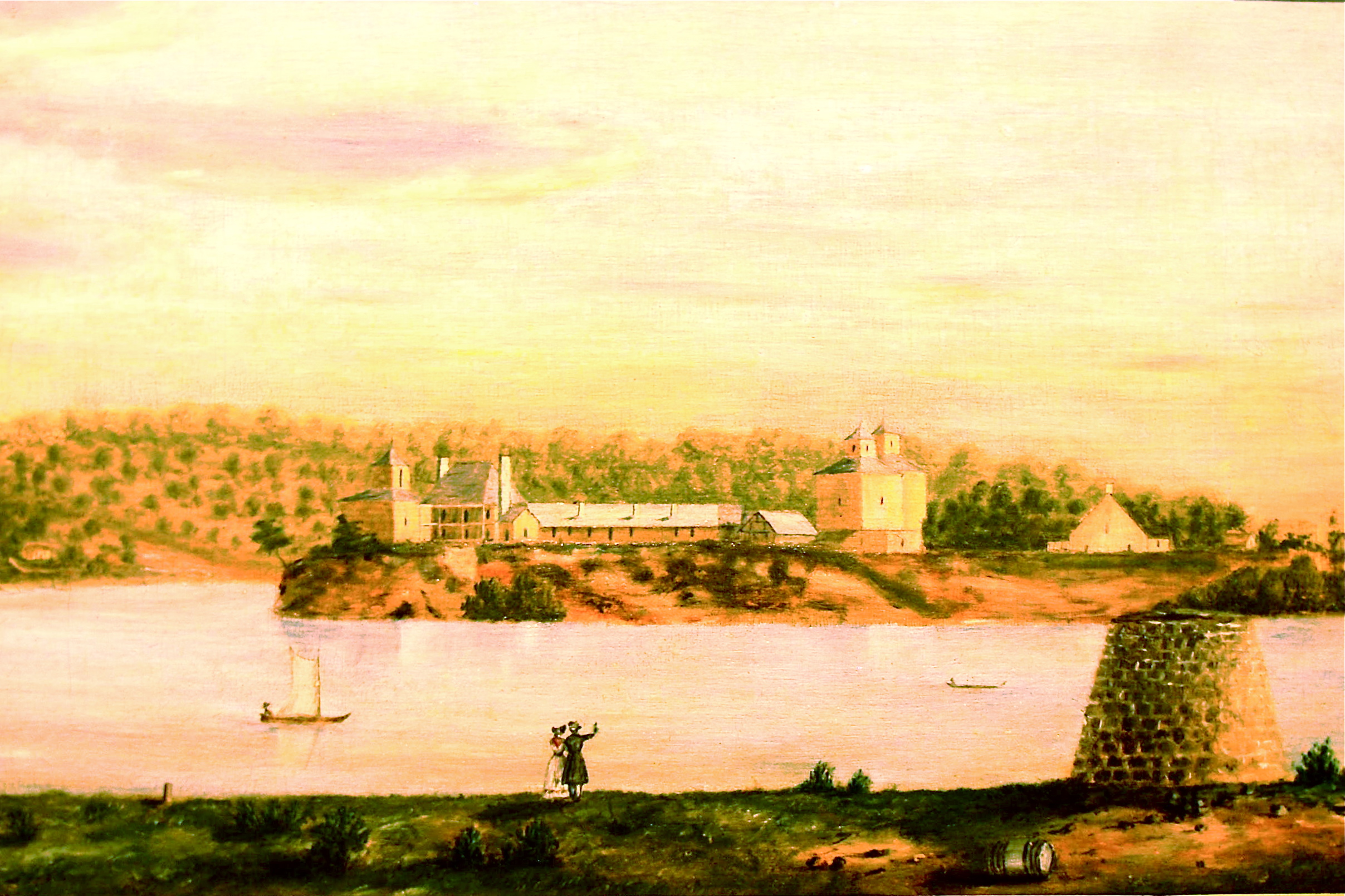 This photograph of an old painting of Fort Armstrong is one of the only clear pictures of the Quad Cities during the 1800's. The painting is assumed to be created by a man by the name of Octave Blair who was an early captain in the Corps of Engineers. The painting, which depicts what currently serves as the Rock Island Arsenal was painted from the Illinois side of the Quad Cities, showing the hills and trees of Davenport in the background.